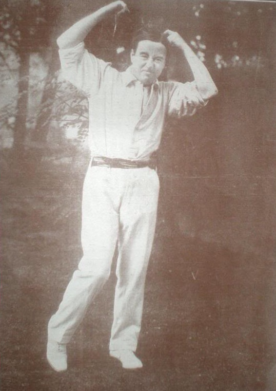 A publicity photo of George Robey in flannels in 1902.